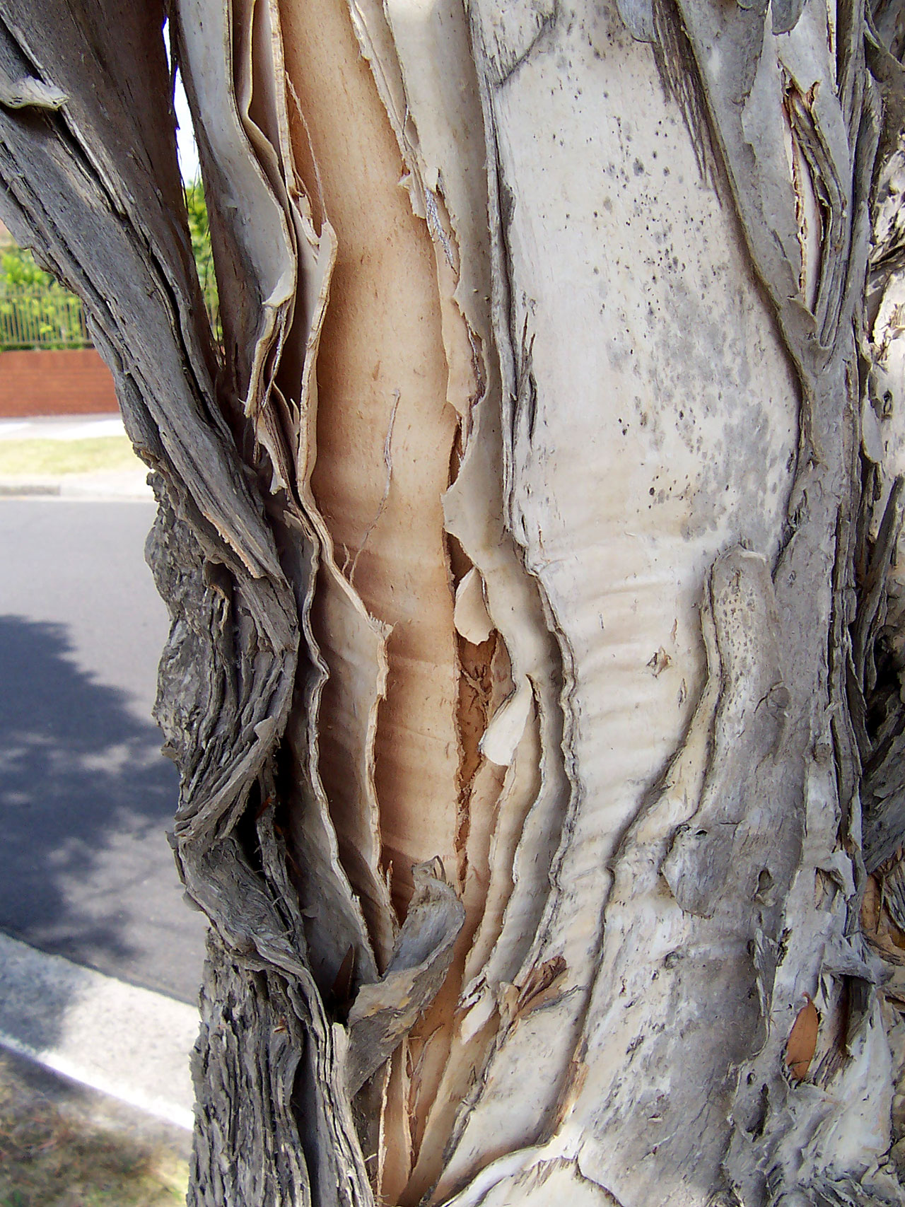 A Melbourne Paperback Permission is granted to copy, distribute and/or modify this document under the terms of the GNU Free Documentation License, Version 1.2 or any later version published by the Free Software Foundation; with no Invariant Sections, no Front-Cover Texts, and no Back-Cover Texts. Subject to disclaimers. Subject to disclaimers.